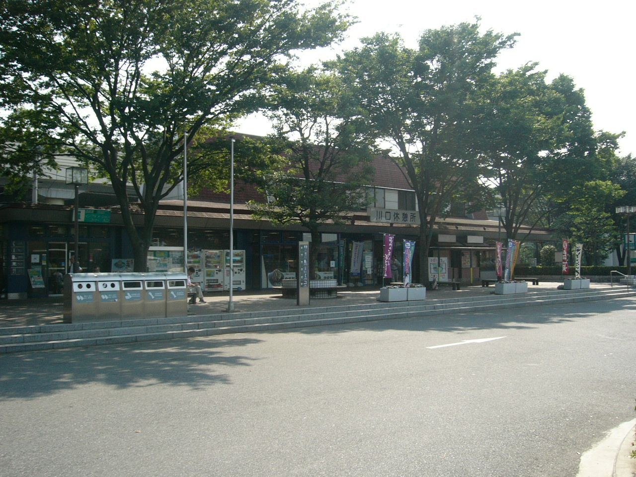 Kawaguchi Parking Area